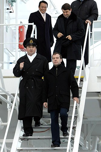 YUZHNO-SAKHALINSK. With Japanese Prime Minister Taro Aso